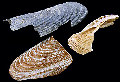 Pholas dactylus